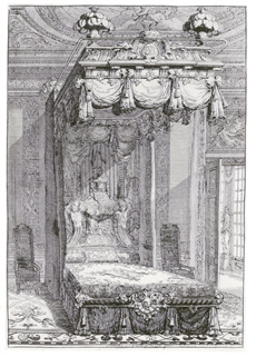 Daniel Marot design for a State Bed, engraving published in Second Livre d'Appartements n.d. about 1702